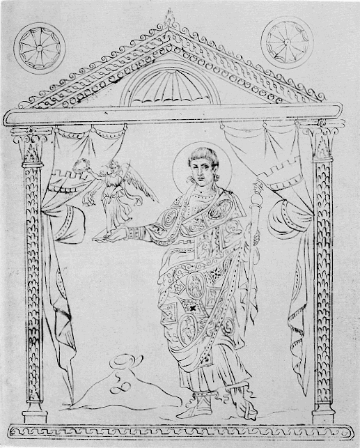 Portrait of Caesar Constantius Gallus from the Chronography of 354